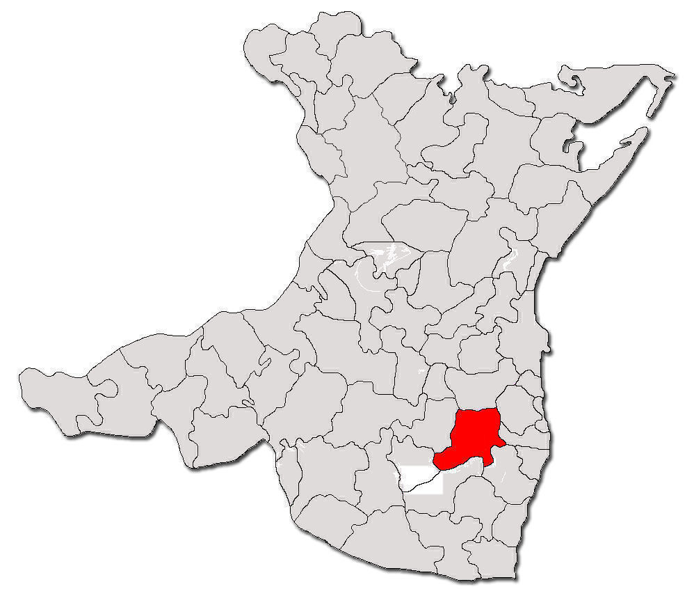 Contour of Topraisar commune